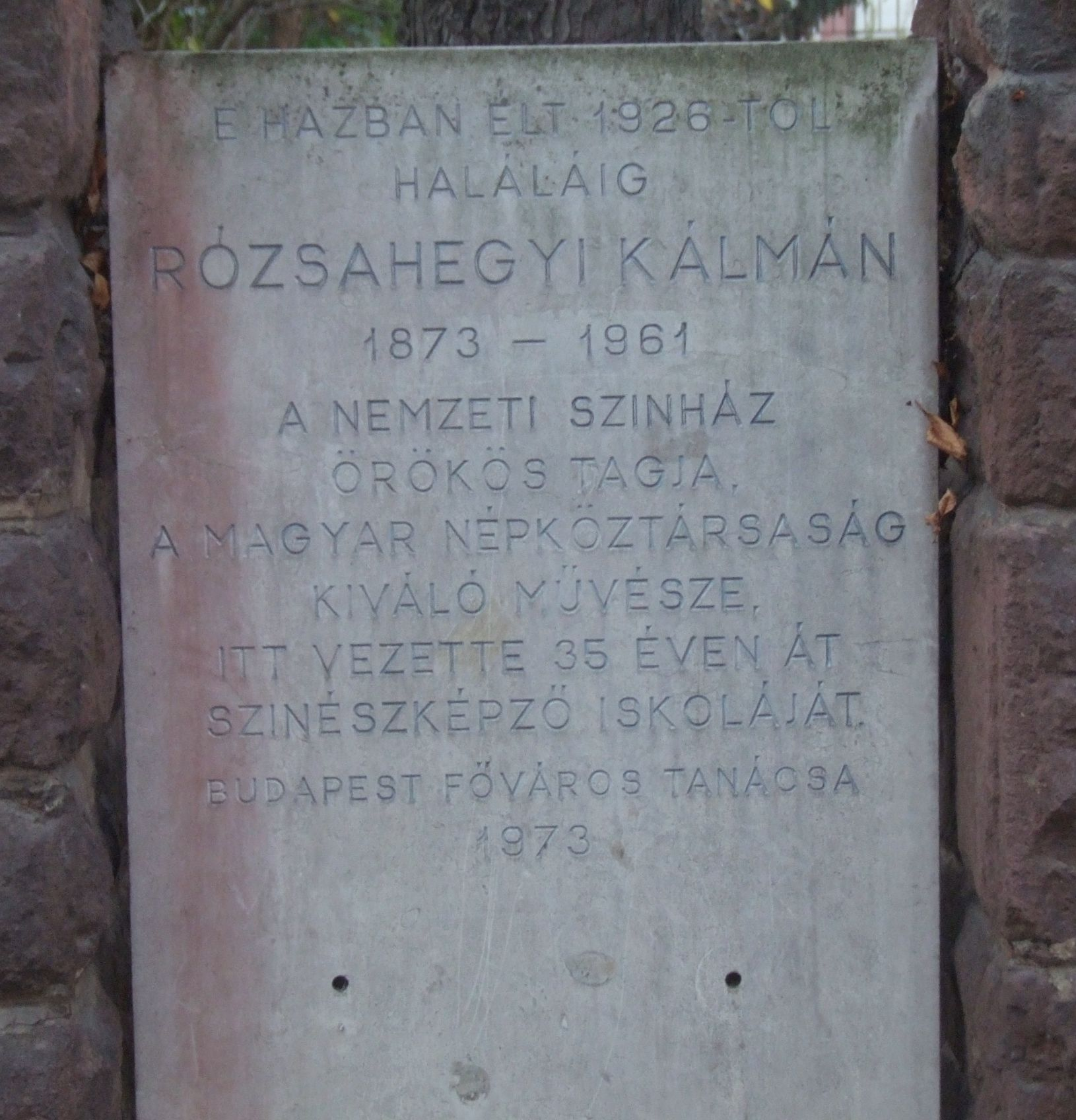 Kálmán Rózsahegyi commemorative plaque in Budapest District XII, Tartsay Vilmos Street No 9.